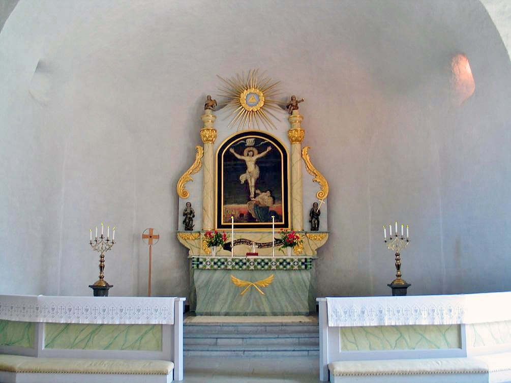 Södra Möckleby Church.The chancel